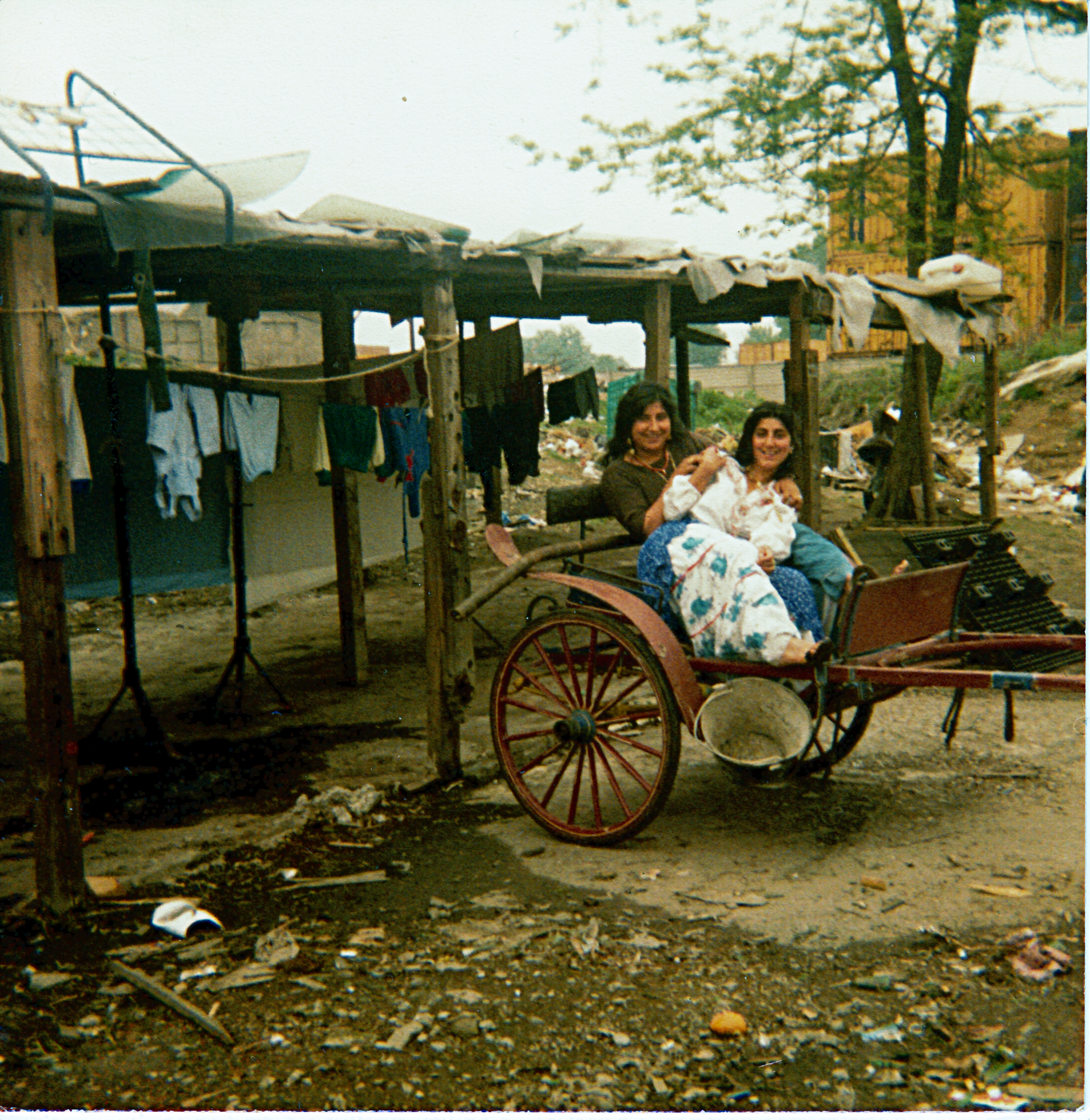 The photo was taken in a Rom camp in Milan (via Zama)in 1989. In the picture you see two young women sitting on an old gypsy chariot into disuse. The chariot was their means of transport before the use of cars.